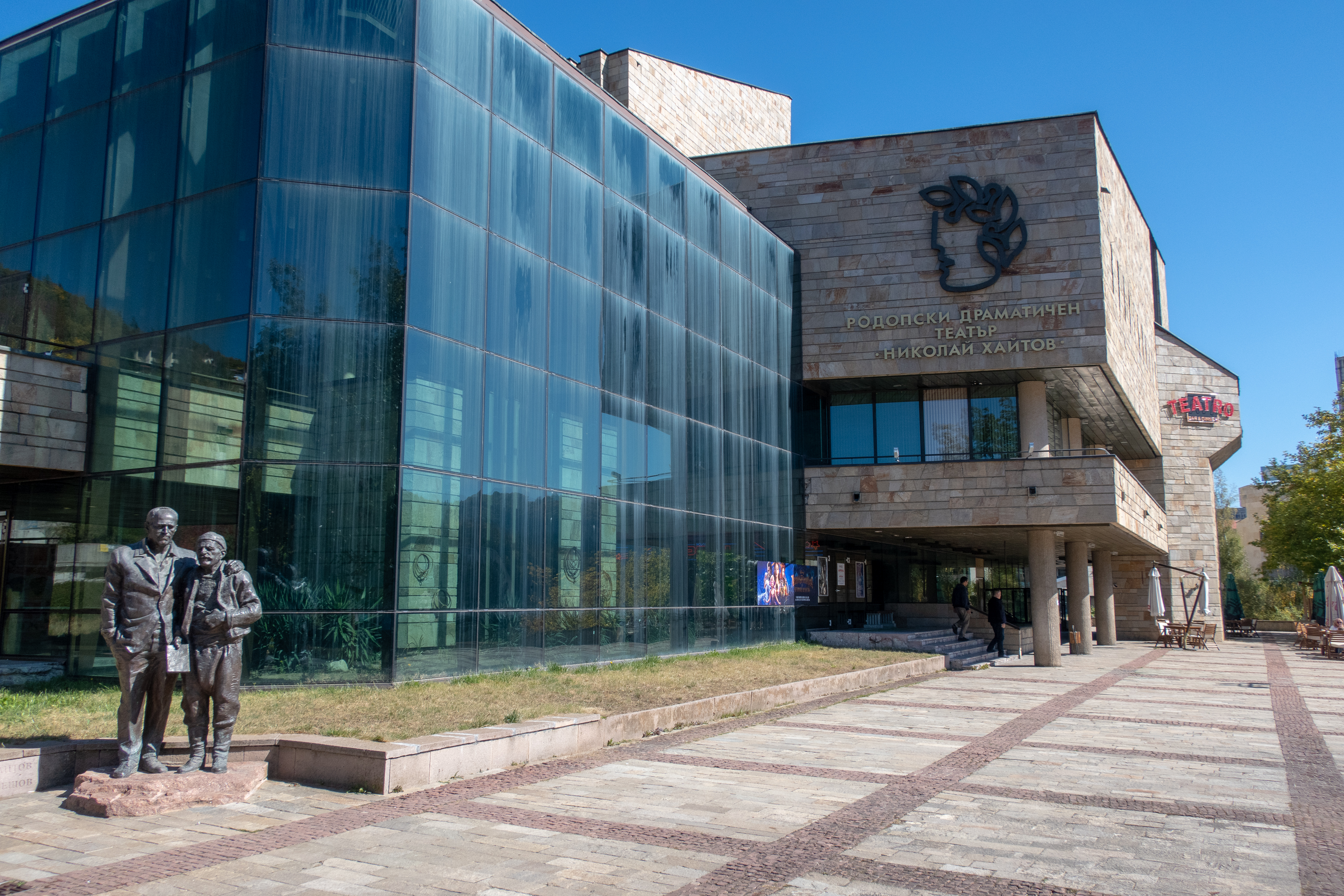 Smolyan